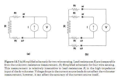 Simplified schematic for two-wire sensing